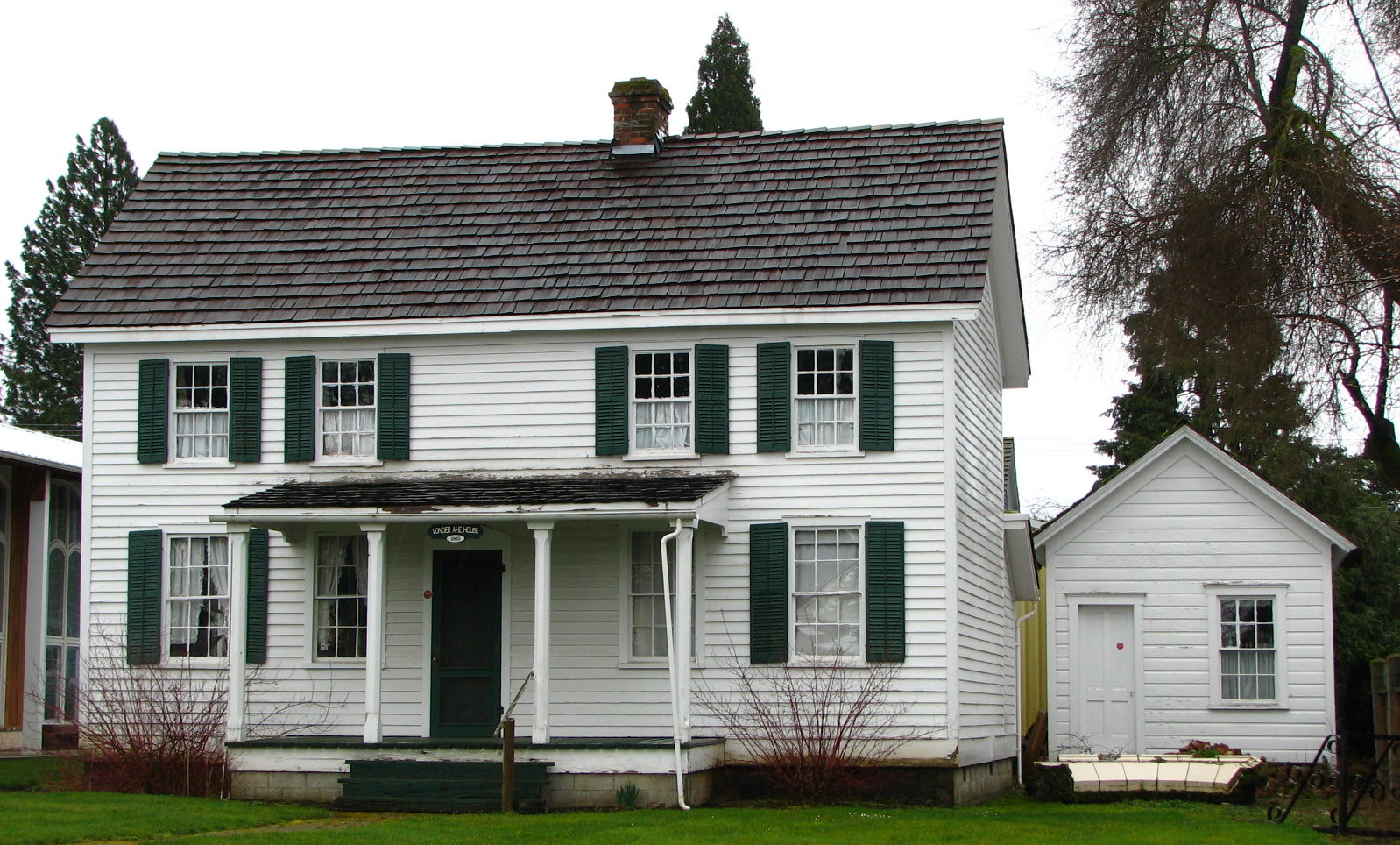 The historic Fred Vonder Ahe House and Summer Kitchen (built 1869), located at 625 Metzler Avenue in Molalla, Oregon, United States, is listed on the US National Register of Historic Places. It is currently operated as part of a history museum.